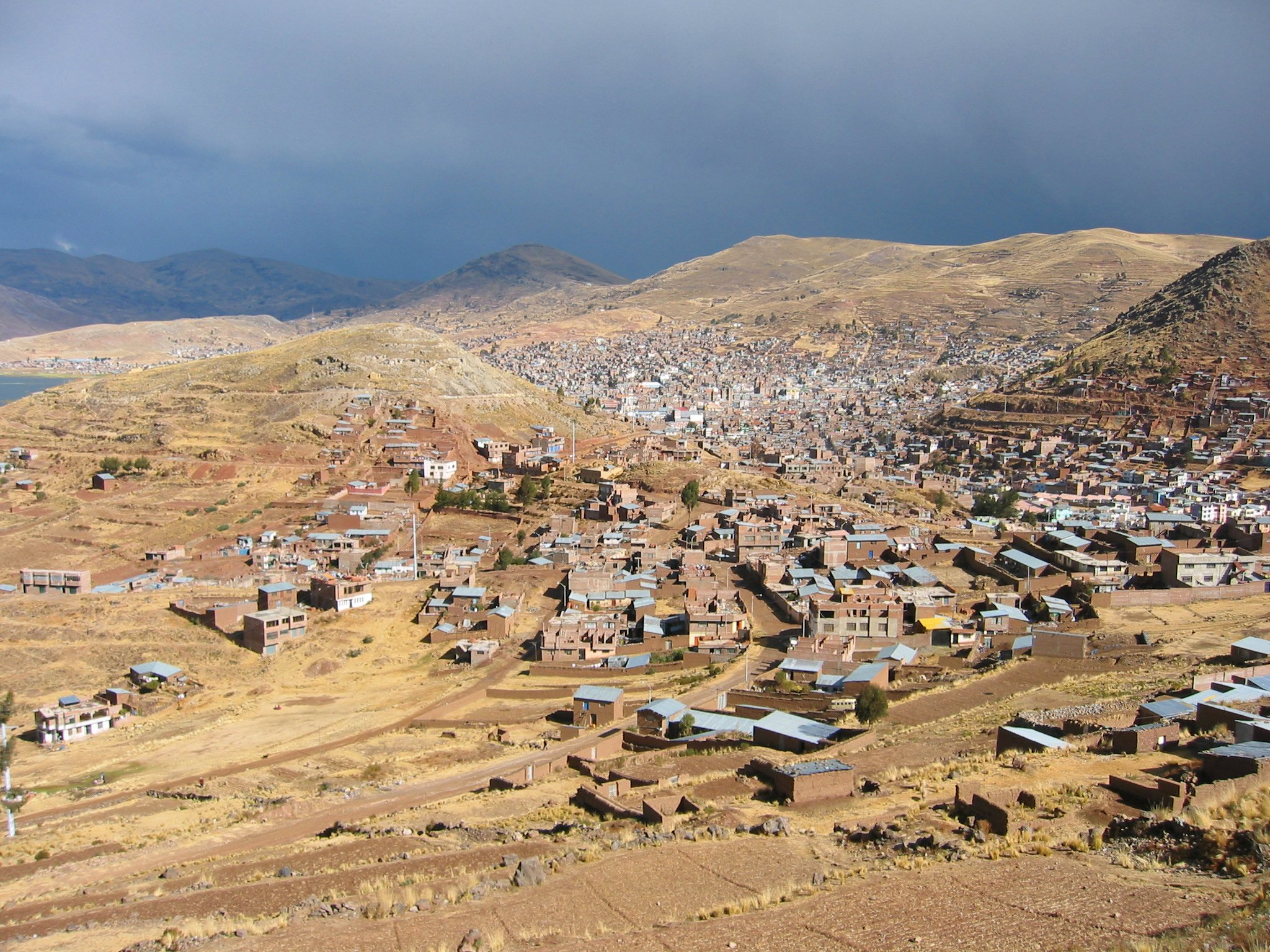 View of the city of Puno, Peru. The center of the city along Lake Titicaca is largely obscured by a hill.